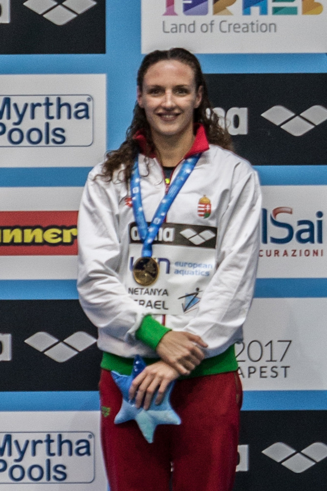 Swimmer Katinka Hosszú wearing the gold medal she won at the 100m backstroke, 2015 European Short Course Swimming Championships, Netanya